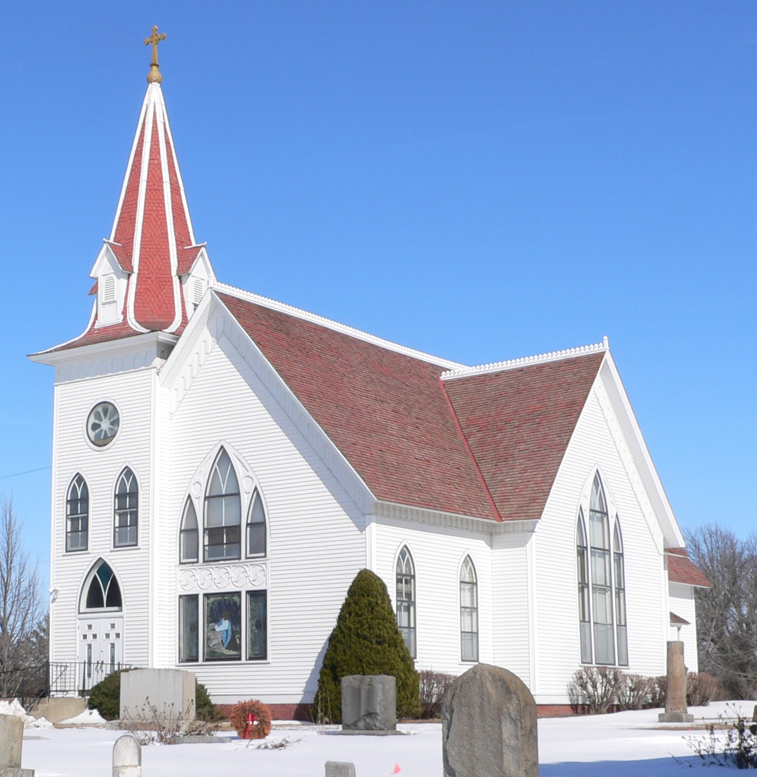 St. John's Evangelical Lutheran Church in Kronborg, Nebraska; seen from the southwest. Kronborg is an unincorporated settlement at the corner of county roads 22 and T in Hamilton County, about three miles east of Marquette. The church was built between 1899 and 1915 as St. Johannes Danske Lutherske Kirke. Many of the headstones in the cemetery surrounding the church bear Danish-language epitaphs. The church and associated buildings are listed in the National Register of Historic Places.